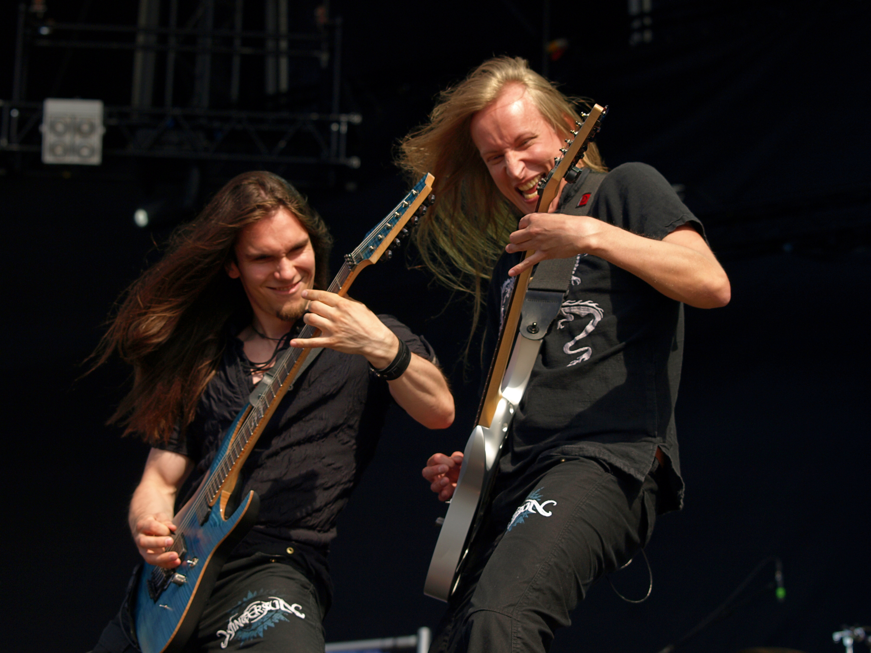 Finnish metal band Wintersun live at Tuska Open Air 2013